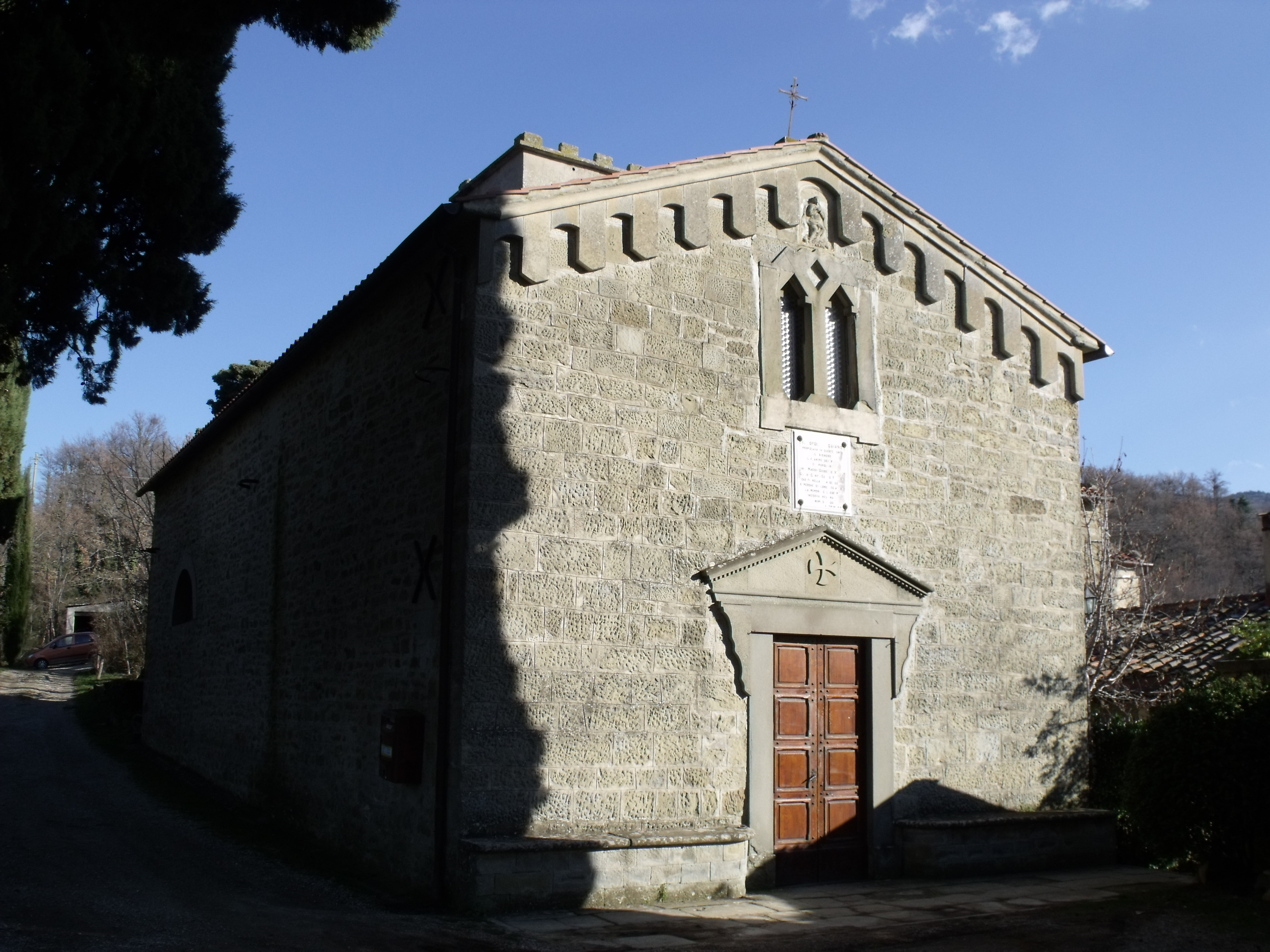 Church of Santa Maria a Caiano in the suburb Caiano, Londa, Tuscany, Italy